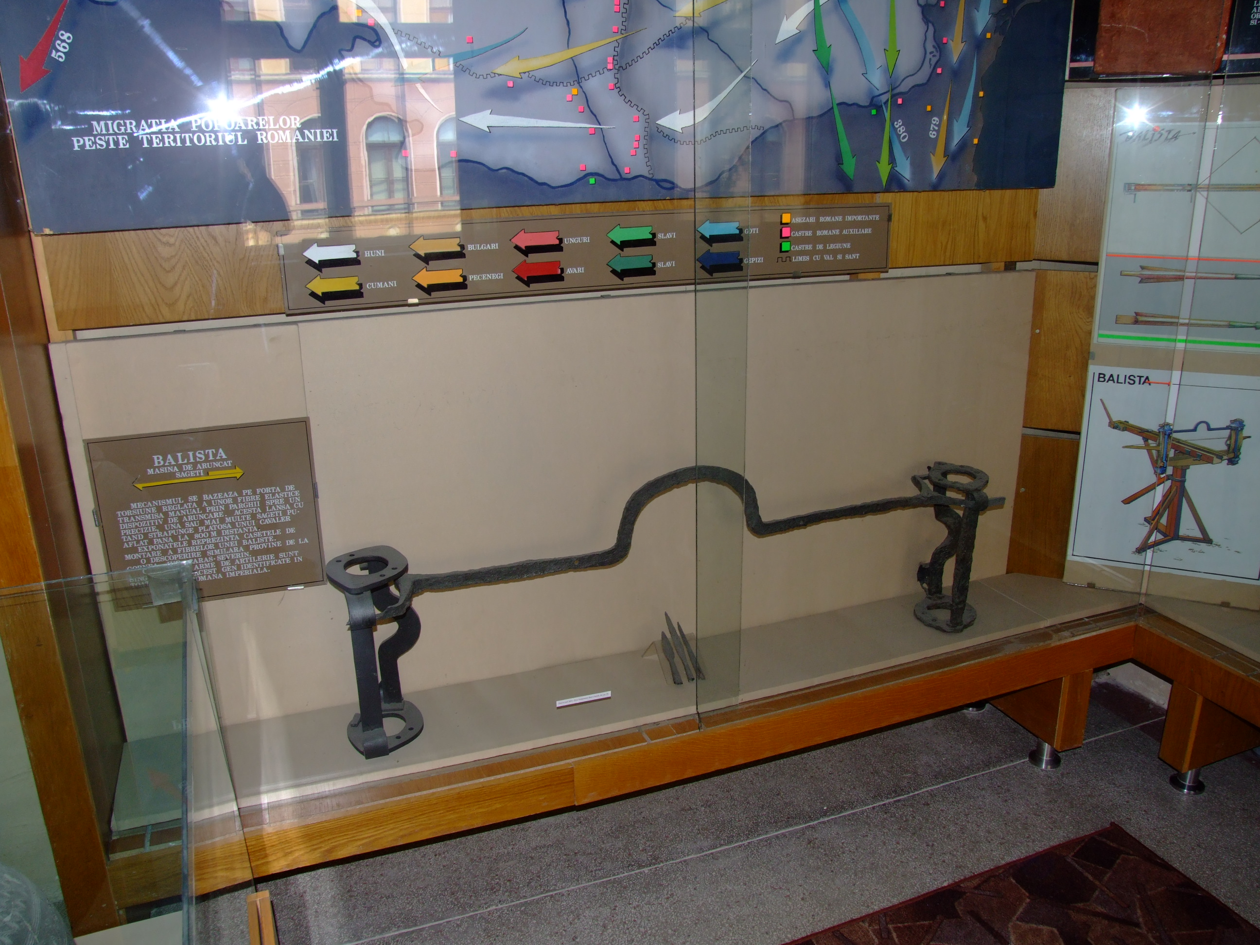 IV A.D. Balista exposed in Cluj History Museum. Balista was found at Dierna castra in the Romanian city of Orșova in Mehedinți County.